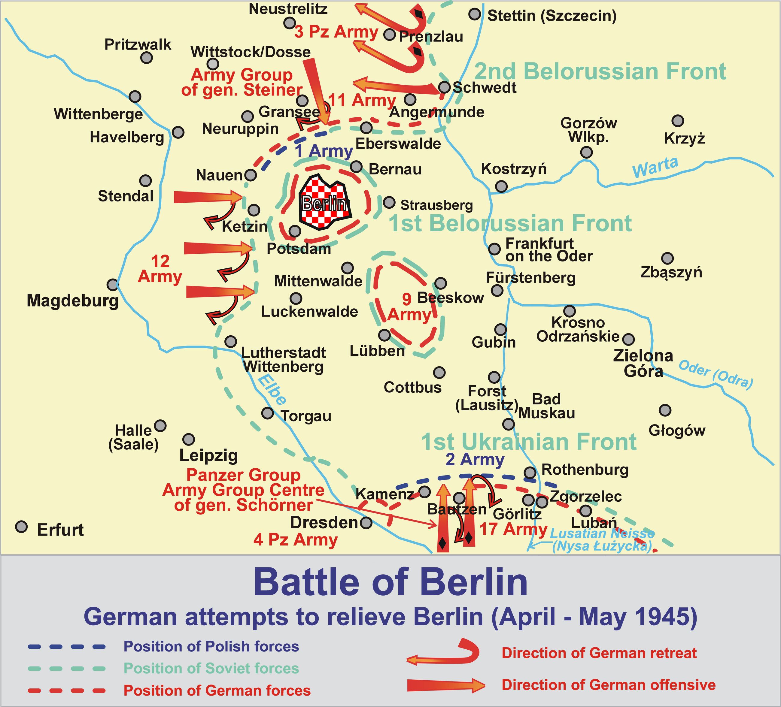 Map of the Battle of Berlin, illustrating German attempts to relieve Berlin (April - May 1945).